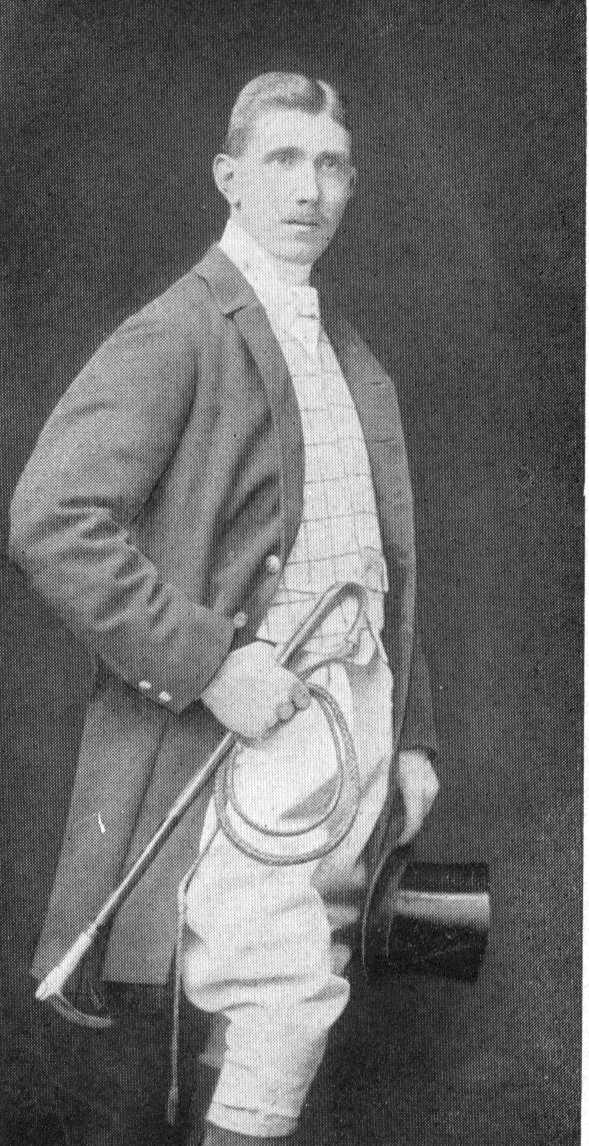 Future German Chancellor Franz von Papen in 1903.